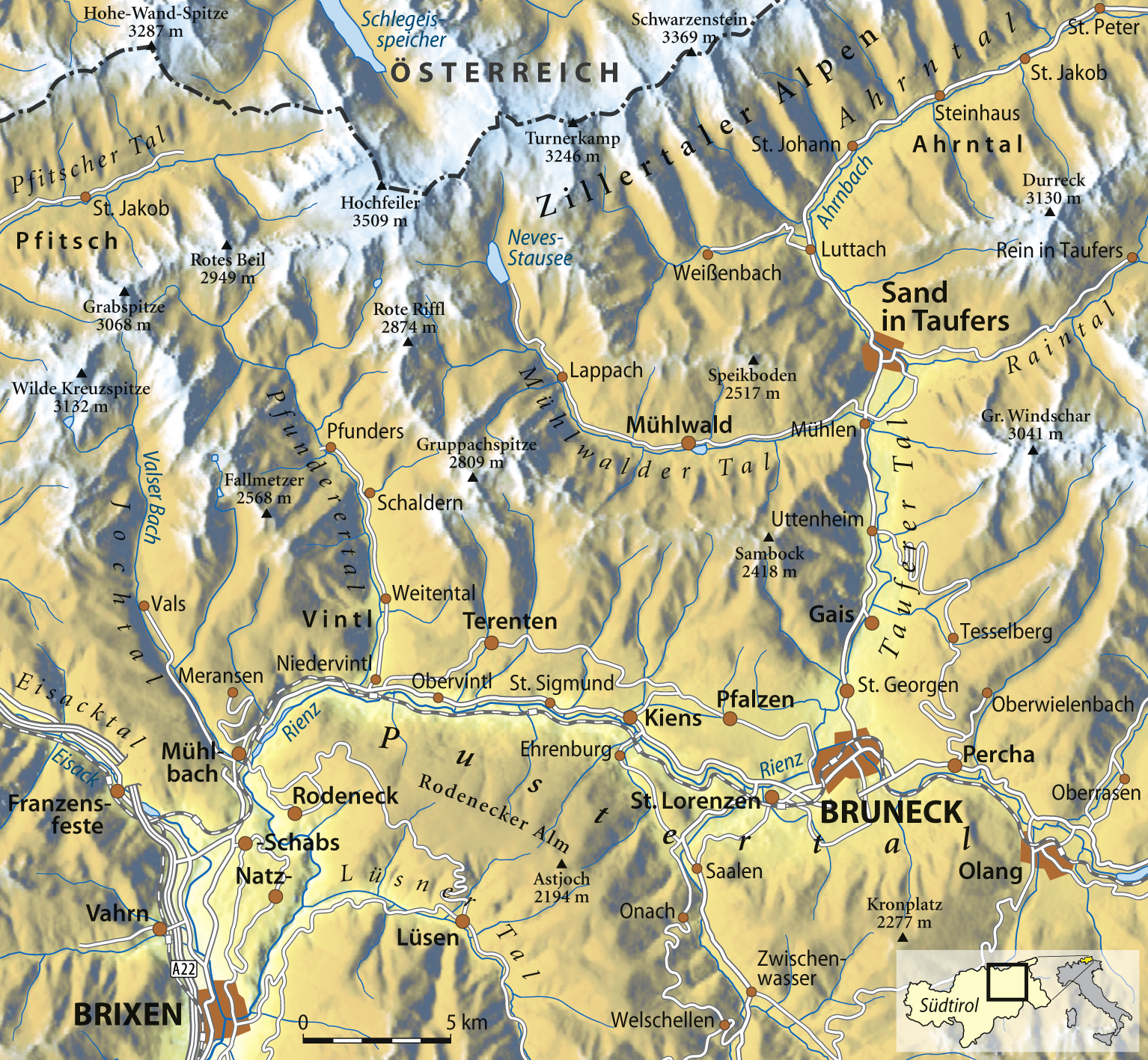 Western Puster Valley